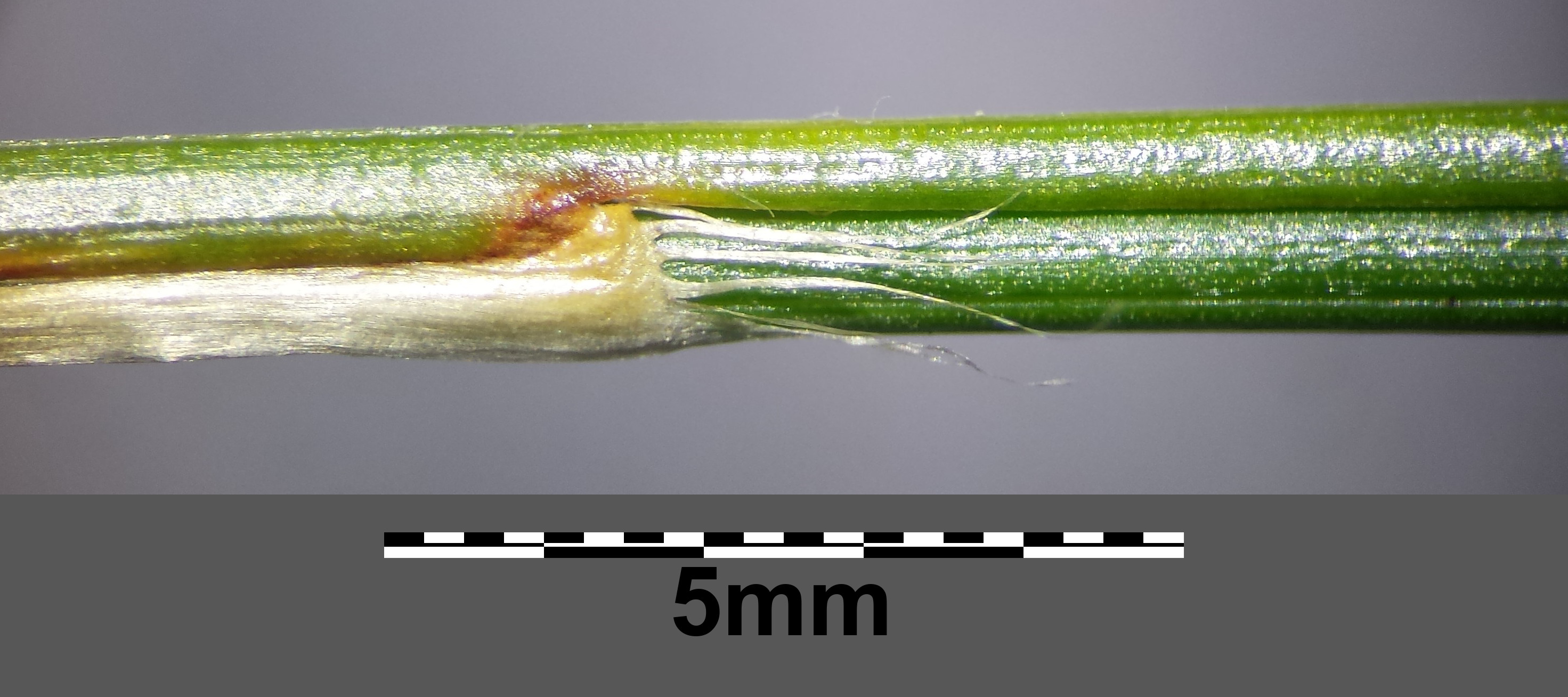 Stipe with leaf and lacerate auricle Taxonym: Juncus monanthos ss Fischer et al. EfÖLS 2008 ISBN 978-3-85474-187-9 Location: Waxriegel/Schneeberg, district Neunkirchen, Lower Austria - ca. 1800 m a.s.l. Habitat: poor grassland